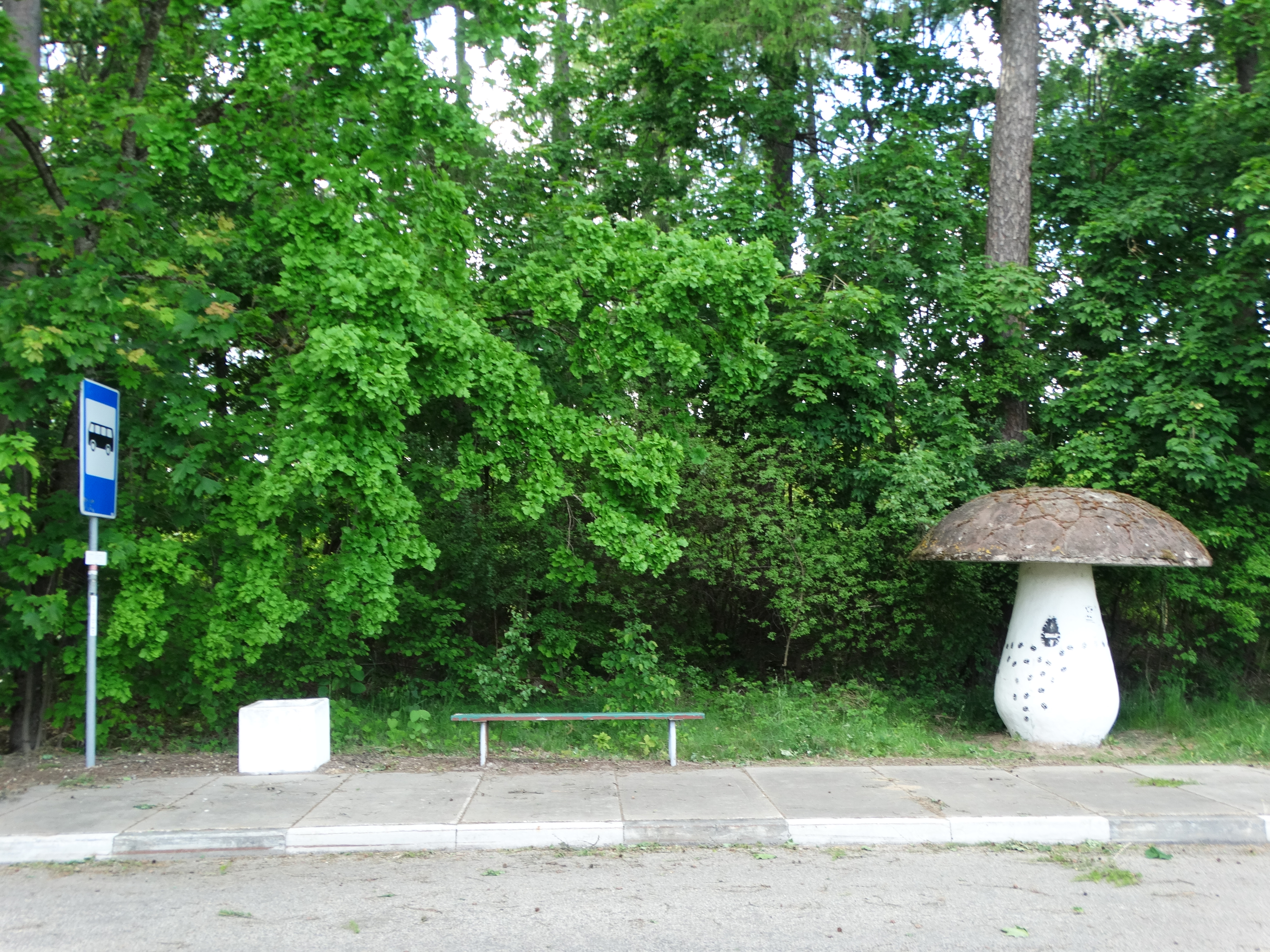 Tursonas, Kaunas district, Lithuania